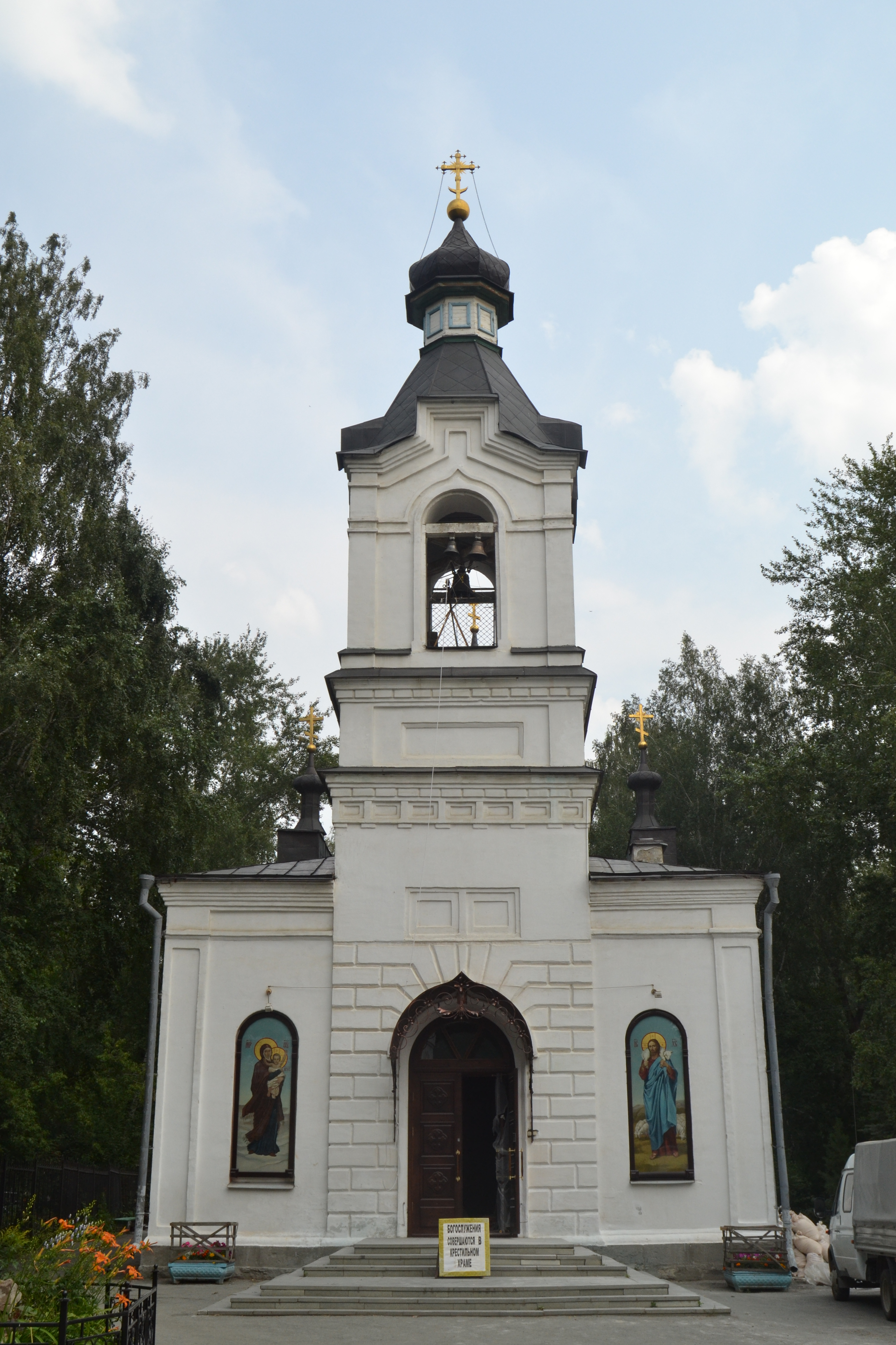 All Saints Church at Michael's cemetery in Yekaterinburg